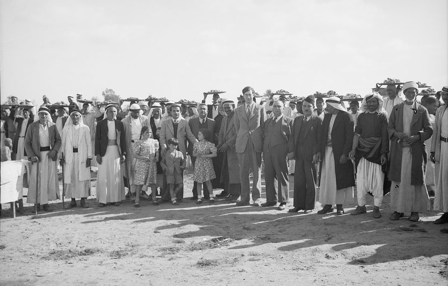 End of a blood feud at el Hamani Village near Mejdal on April 20, '43. Group with the Earl & Aref Bey with carriers of viandes